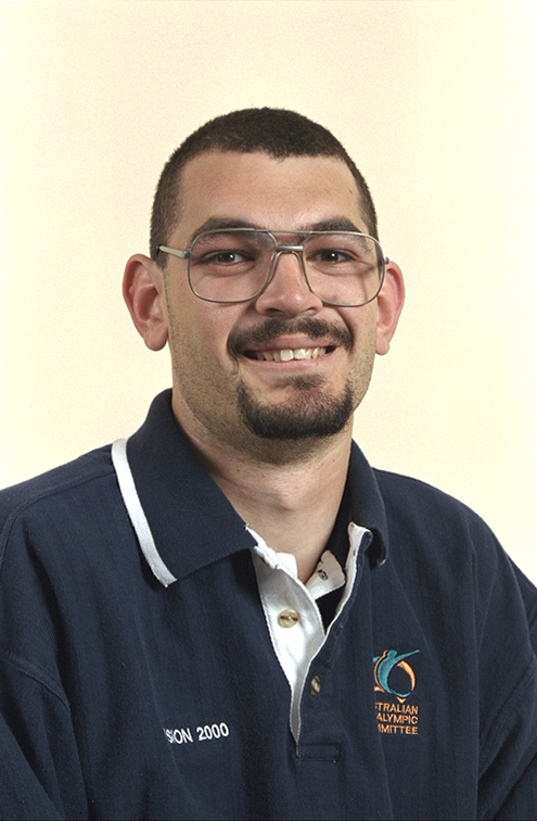 Portrait of Australian athletics competitor Adrian Grogan, 2000 Australian Paralympic Team athlete